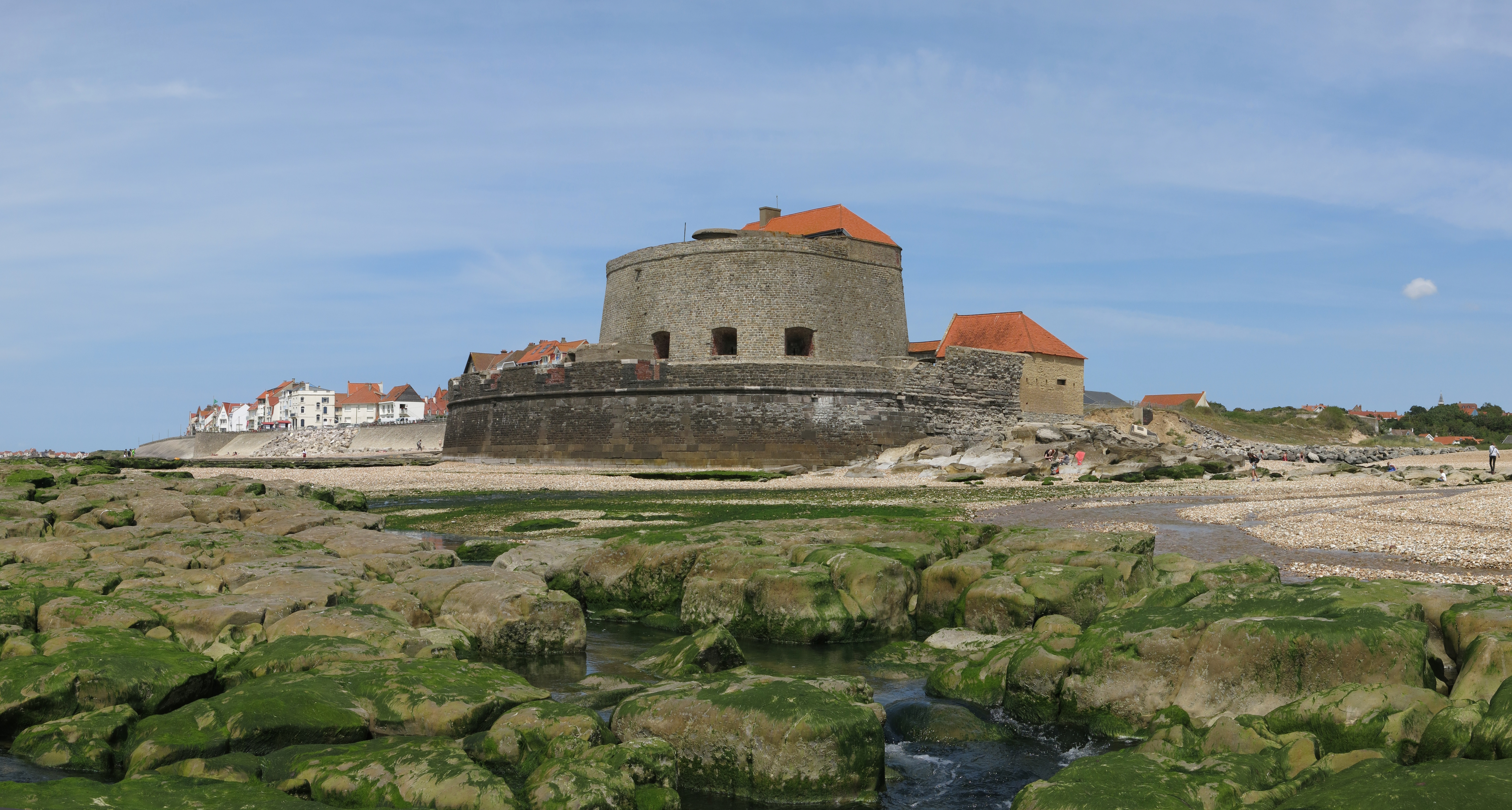 Fort Mahon in Ambleteuse